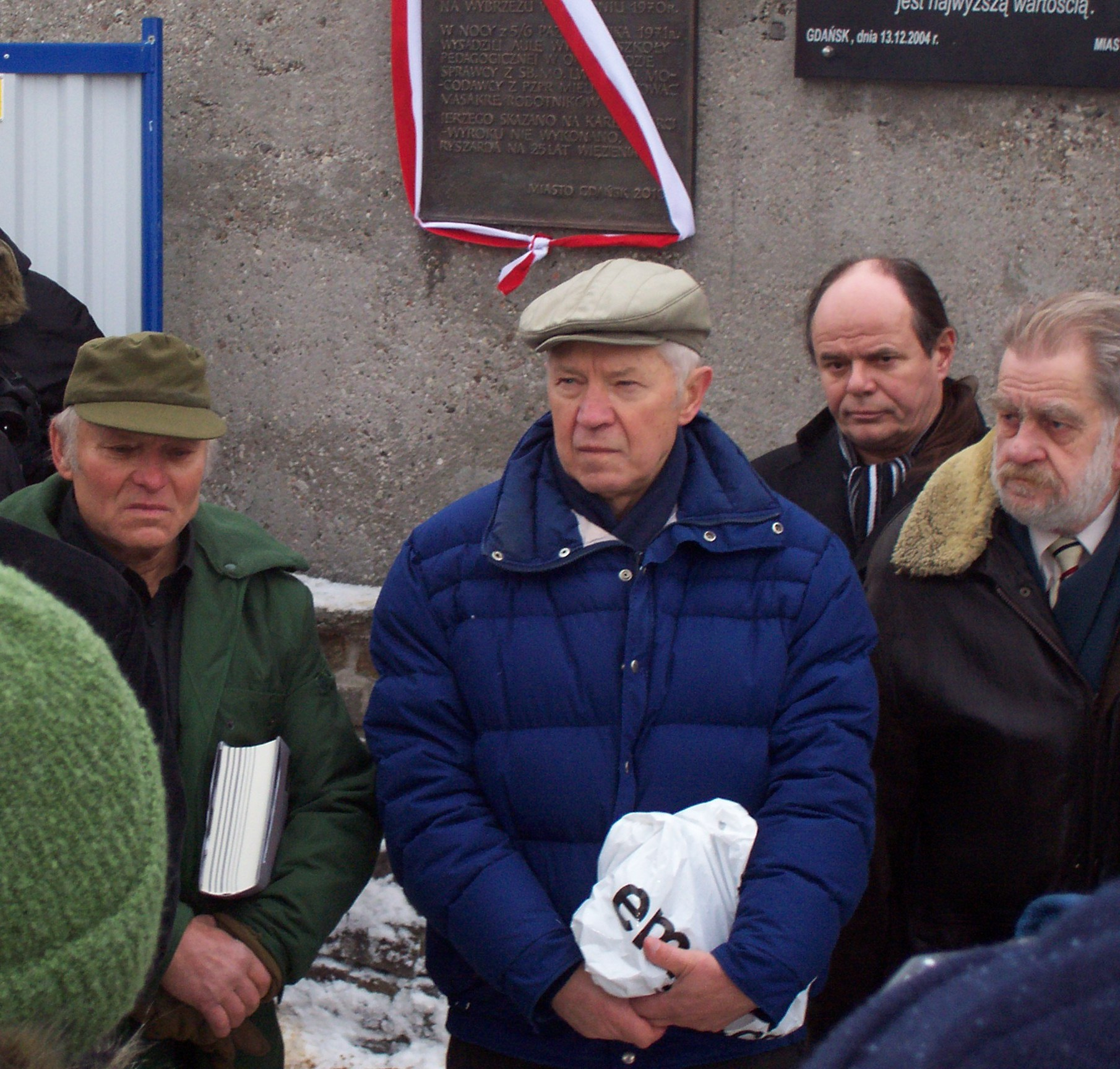 Jerzy Kowalczyk (left) and Ryszard Kowalczyk (in the middle) at the ceremony of the unveiling of commemorating plaque about their action, Gdańsk, 18 Dec. 2010. Next to them: Wiesław Ukleja from Opole and Andrzej Gwiazda from Gdańsk.